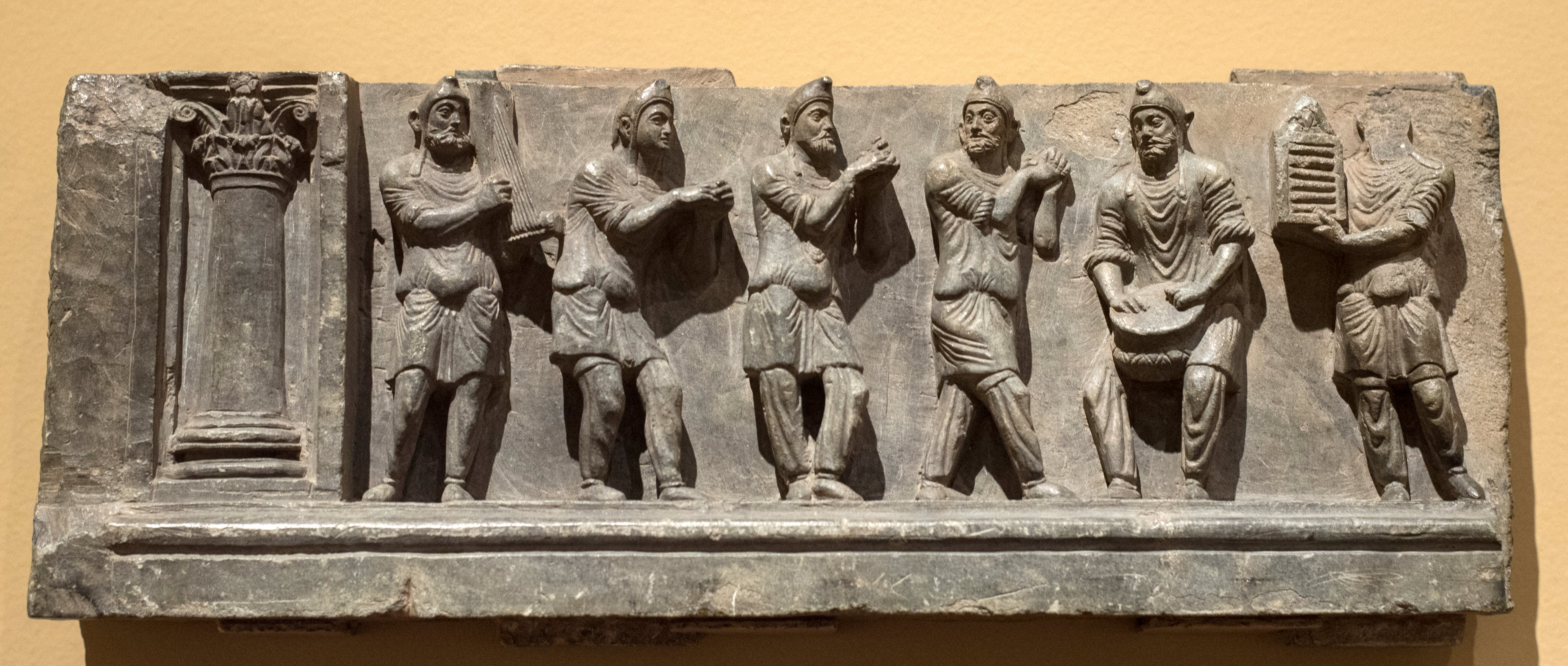 Buner reliefs Scythian bacchanalian cropped